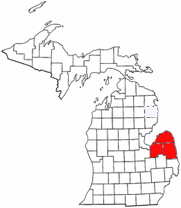 Edited Image:Map of Michigan highlighting Alcona County.png in w: .